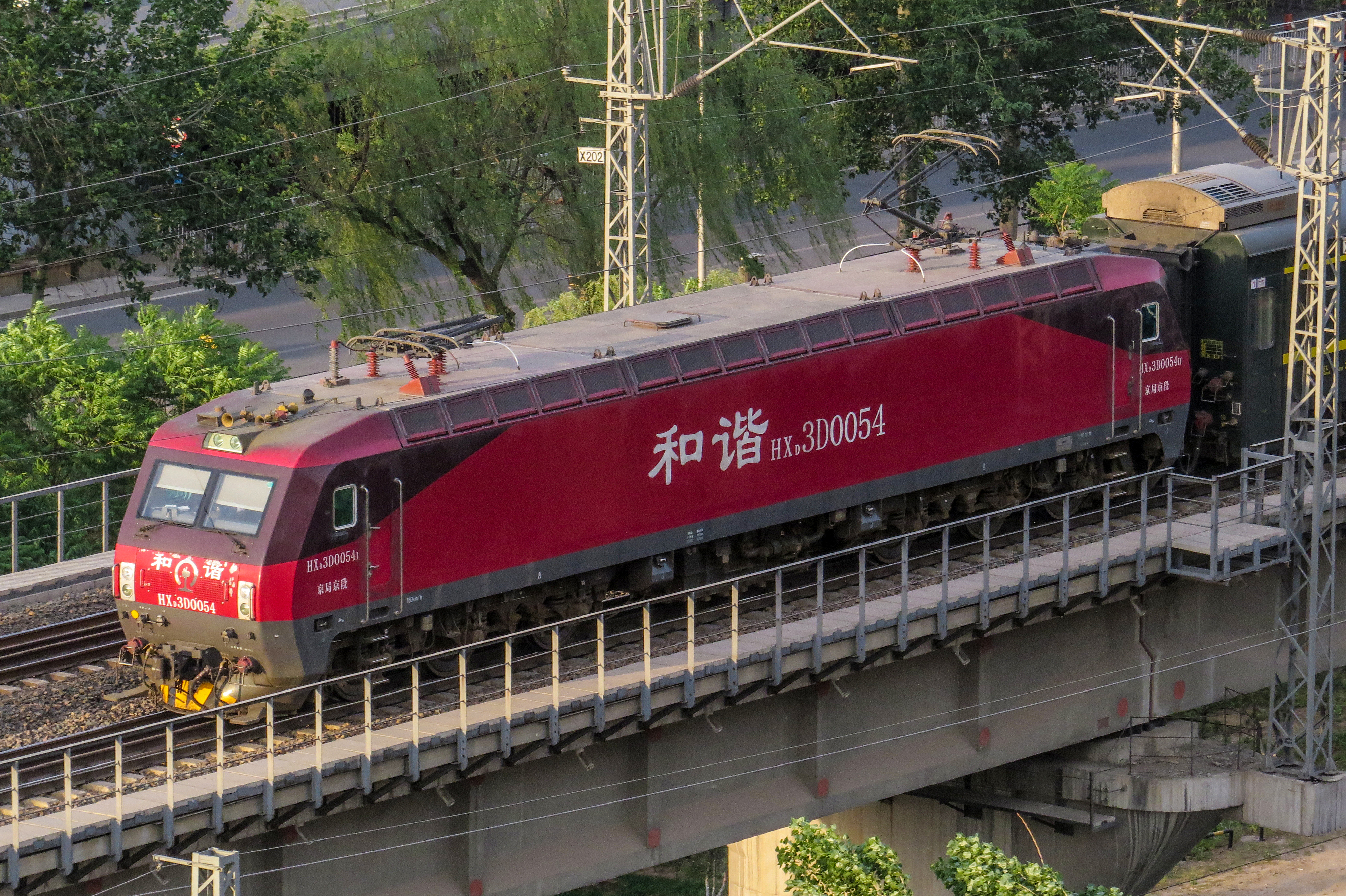 Z95 to Chongqing North.